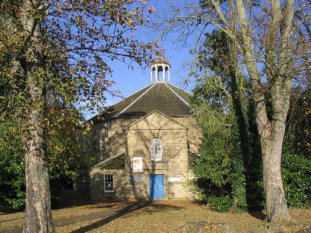 Kelso Old Parish Church The church is located in Abbey Row and was built in 1771-73 to an octagonal plan. The walls are of buff sandstone and while the lower windows are rectangular, the upper ones are arched. The slated roof is capped by a cupola. The adjacent churchyard is a grassed and wooded area with a random spread of headstones, obelisks and table tombs. (Source: Pevsner Architectural Guide, The Buildings of Scotland - Borders). Viewed from a car park at the corner of the square.